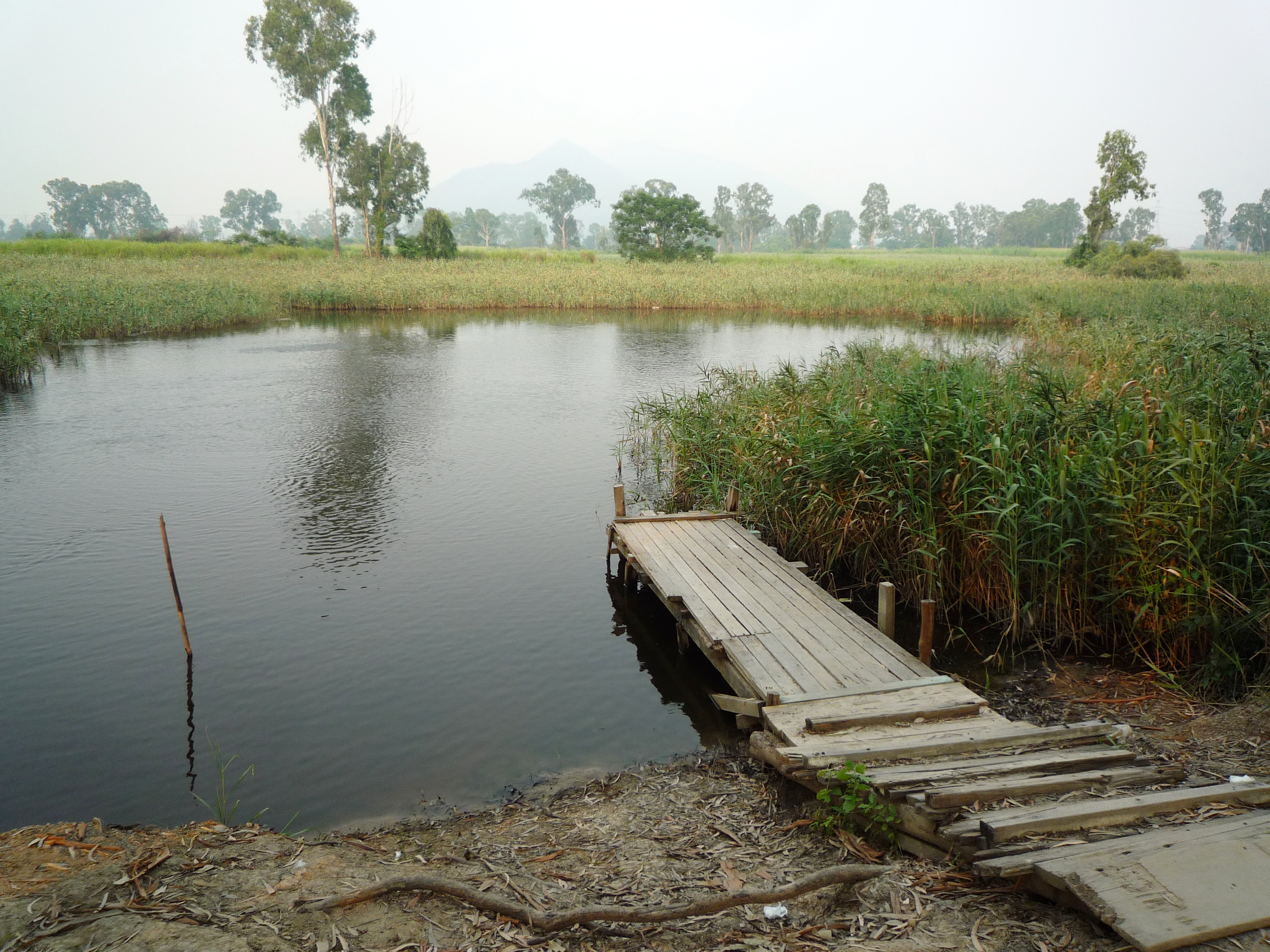 A mini pier located in Nam Sang Wai, Yuen Long, Hong Kong